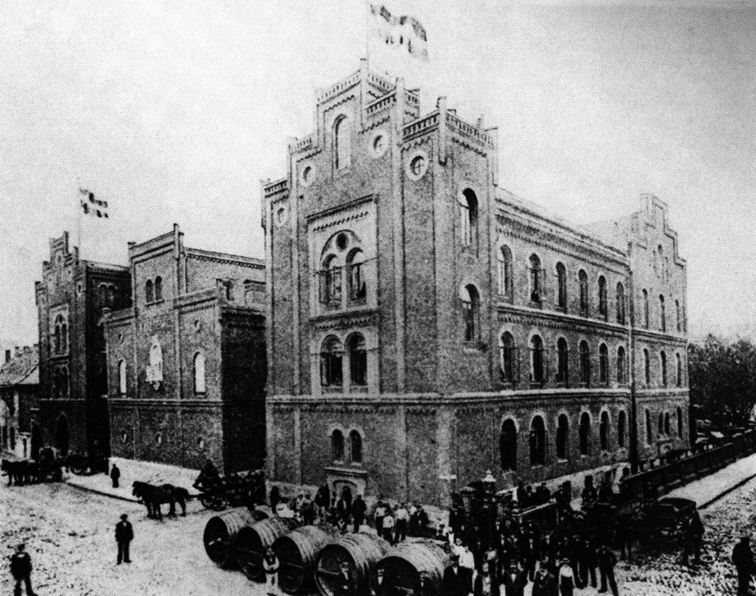 The former Karlsburg-Brauerei (“Karlsburg brewery”) in Bremerhaven, Germany, around 1904.